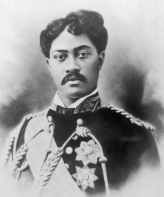 William Pitt Leleiohoku Kalahoolewa (1854–1877), later known as "Leleiohoku II" was a prince of the Kingdom of Hawaii. He died young with no children. Charcoal artwork by J. Ewing, on a photograph reproduced by J. J. Williams. Original photograph by Menzies Dickson.